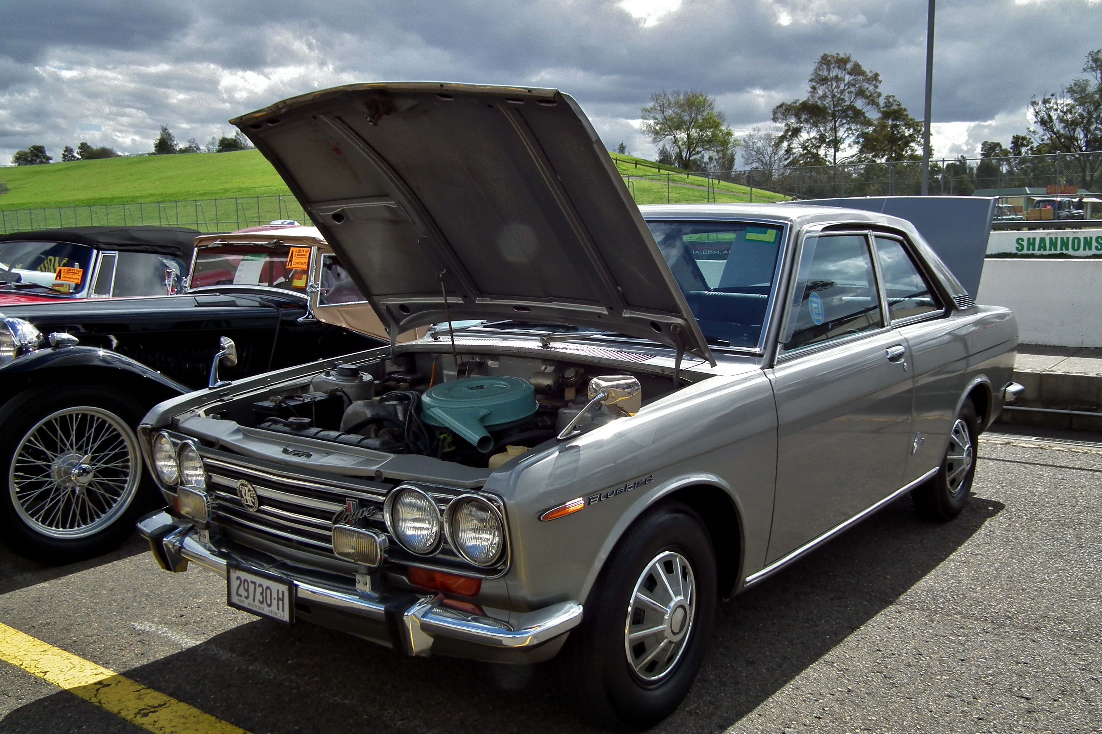 1970 Datsun Bluebird 1600 coupe. Taken at Shannon's Eastern Creek Classic 2011, held at Eastern Creek Raceway Sydney.